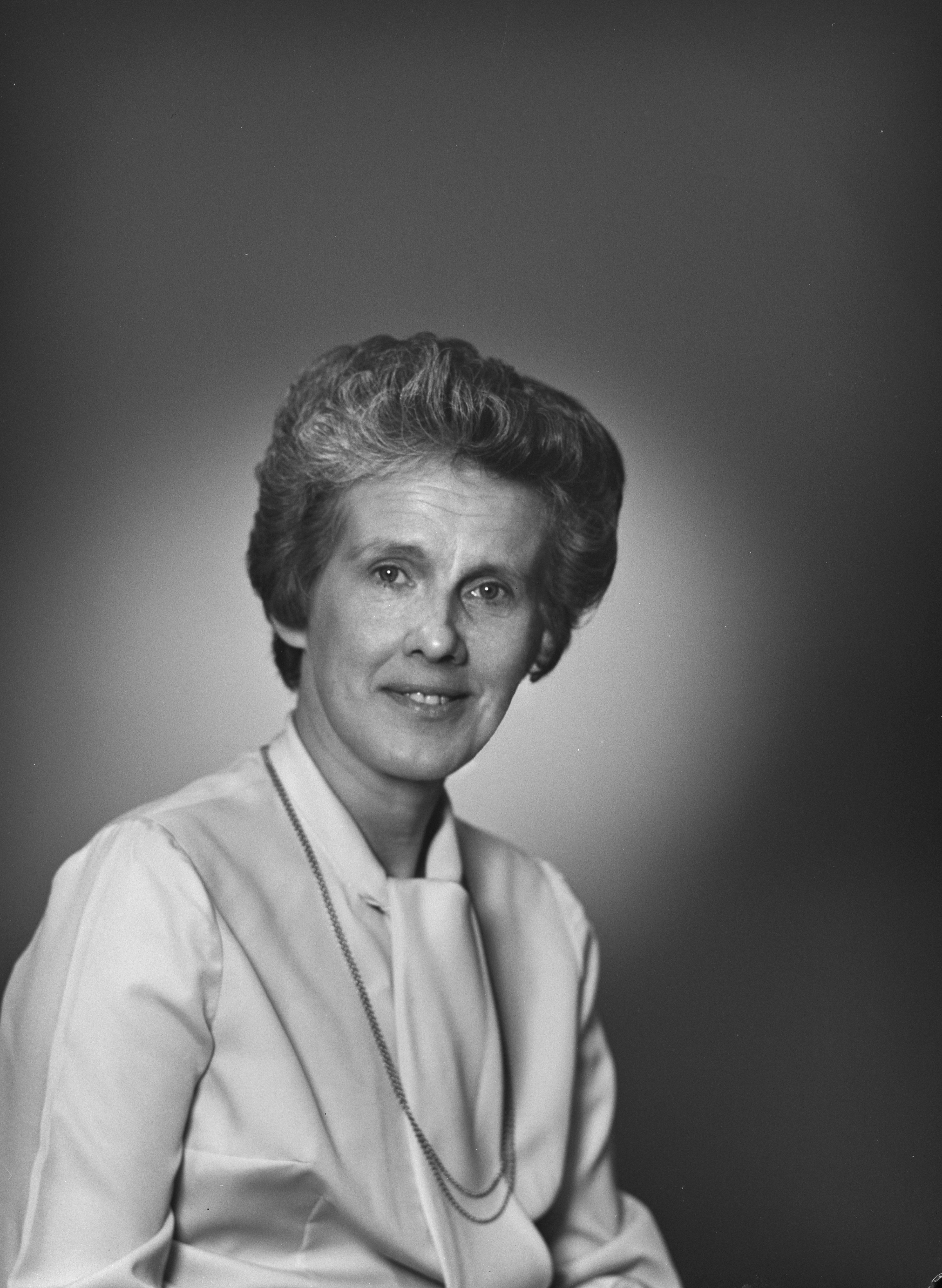 Photograph of the Finnish politician Sinikka Karhuvaara, later Linkomies-Pohjala (1929–2000).